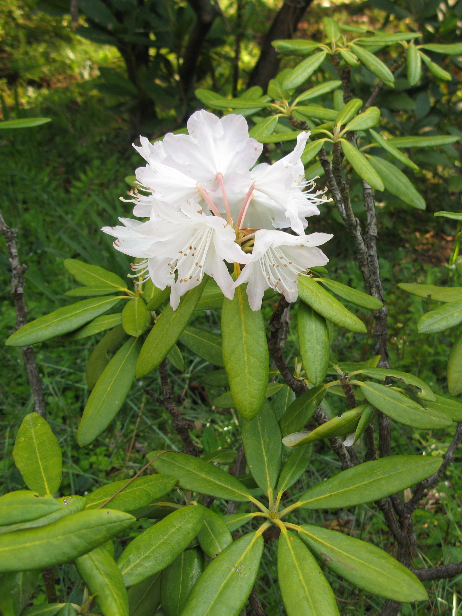 Rhododendron japonoheptamerum var. hondoense, Koishikawa, Botanical Gardens, the University of Tokyo, Japan